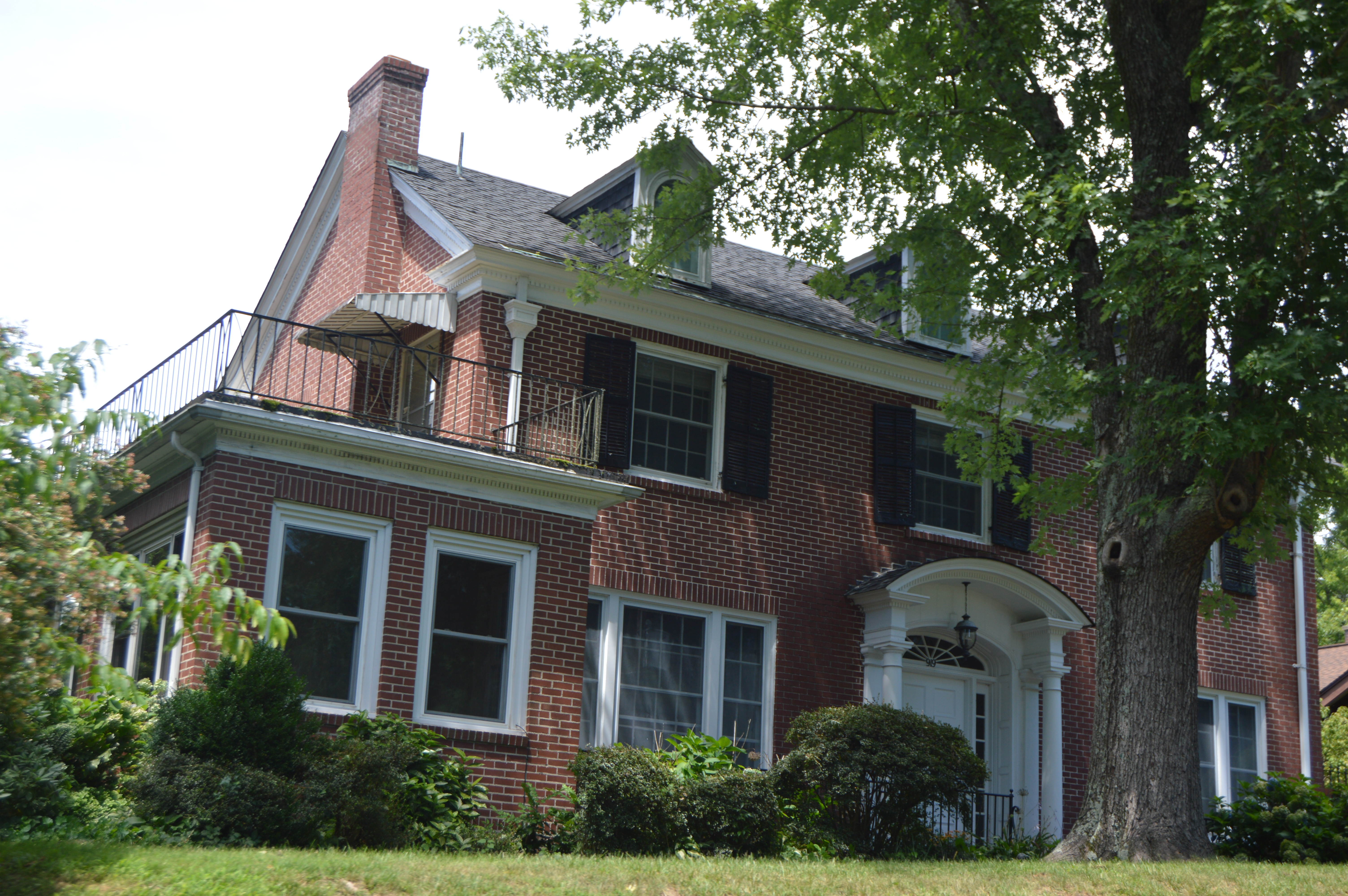 Front of the house located on Fourth Avenue at Ehringhaus Street in Hendersonville, North Carolina, United States. It is part of the West Side Historic District, a historic district that is listed on the National Register of Historic Places.